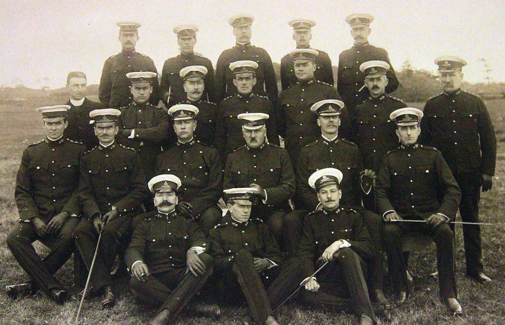 Officers of the 5th Regiment (BC), Canadian Garrison Artillery, Macaulay Point, 1909